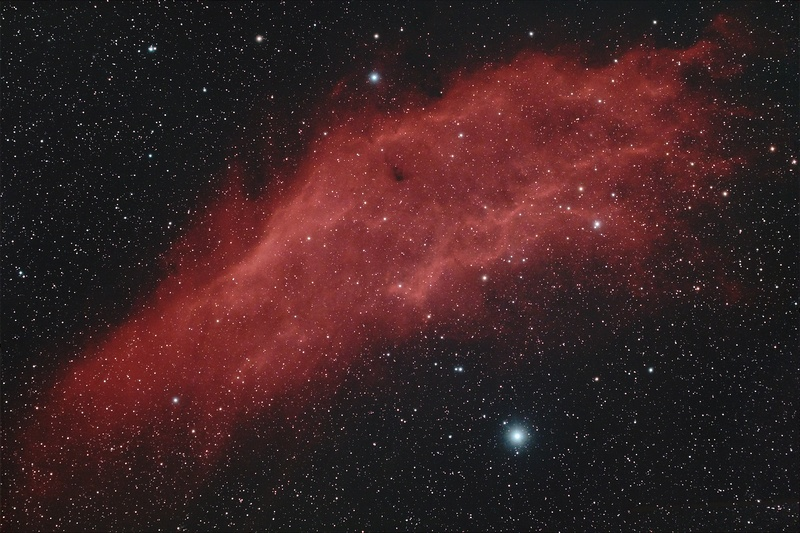 California